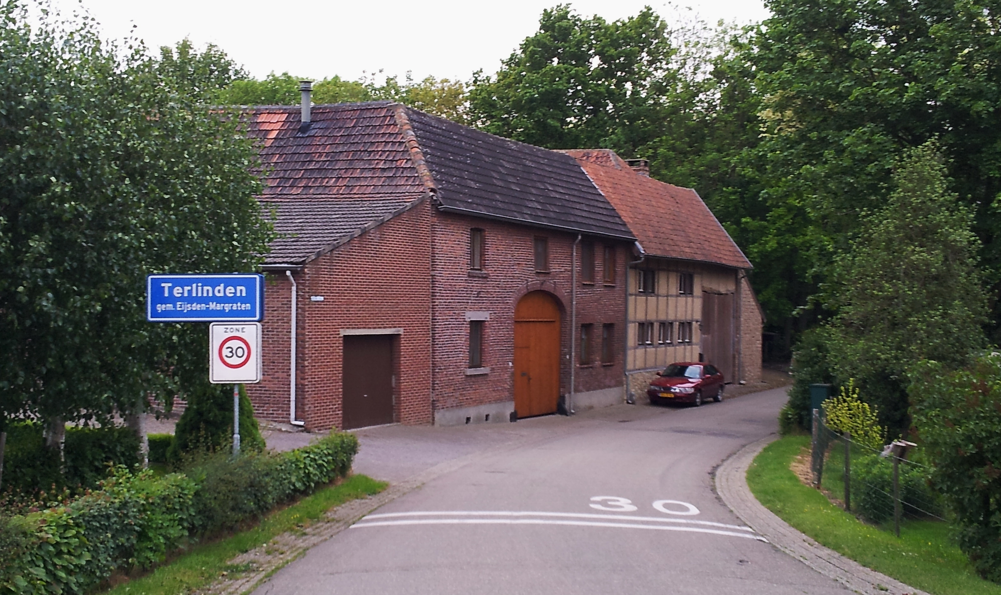 Terlinden, a small hamlet in the municipality of Eijsden-Margraten in the southern part of the Netherlands. The southeastern approach of the village.